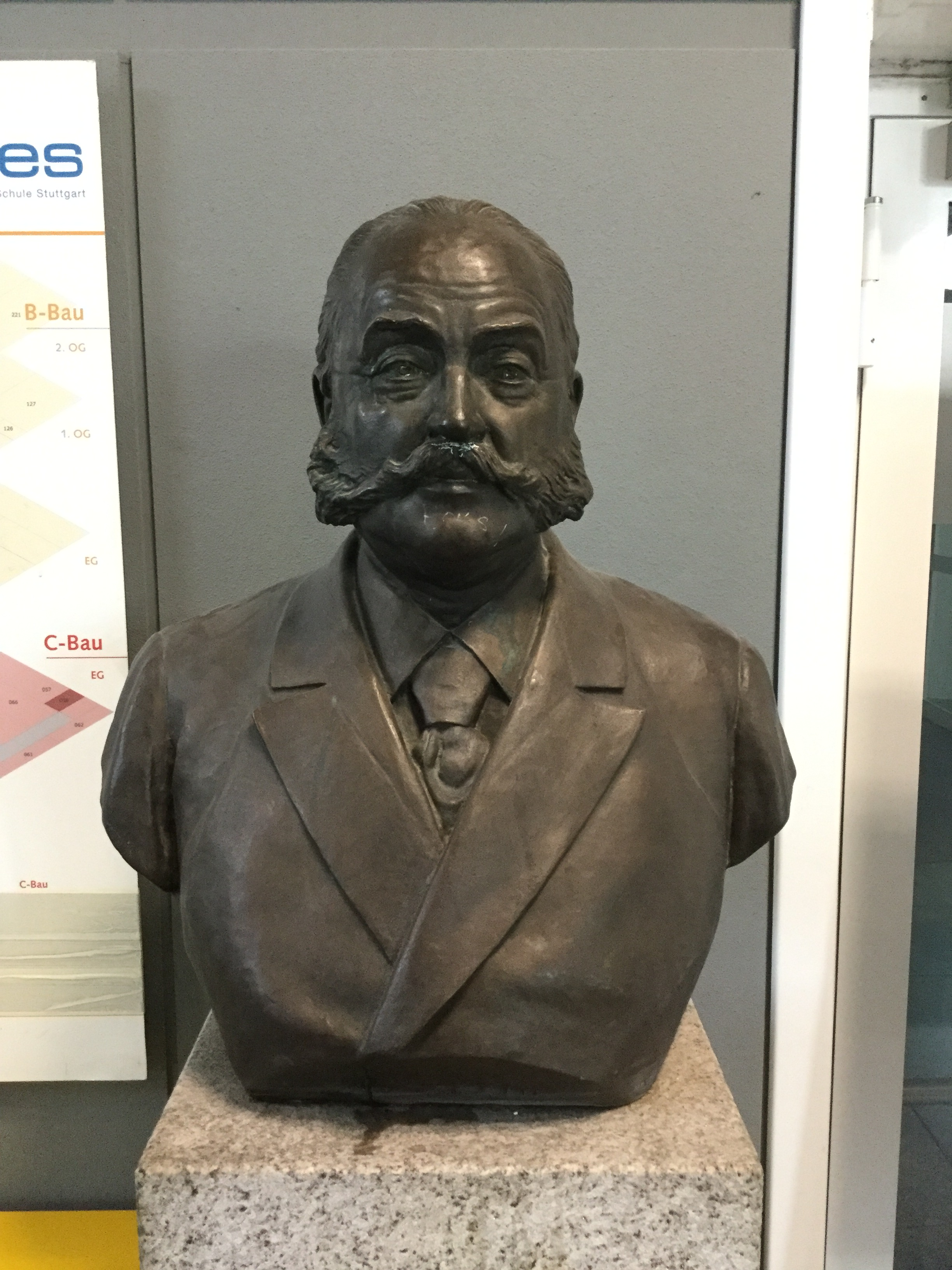 Bust showing German engineer Max Eyth by artist Max Landsberger (1896)